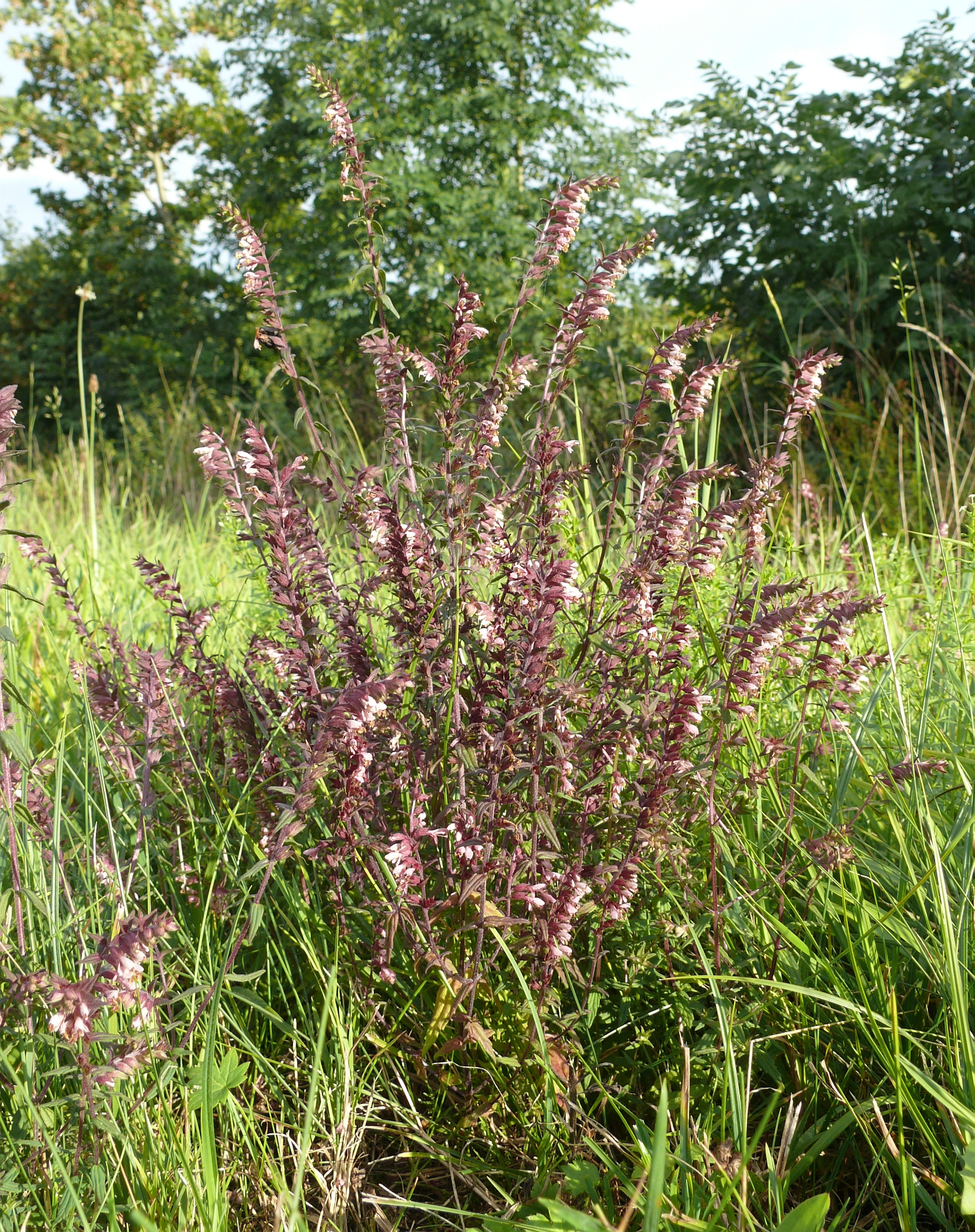 Odontites vulgaris, Hohenlohe, Germany